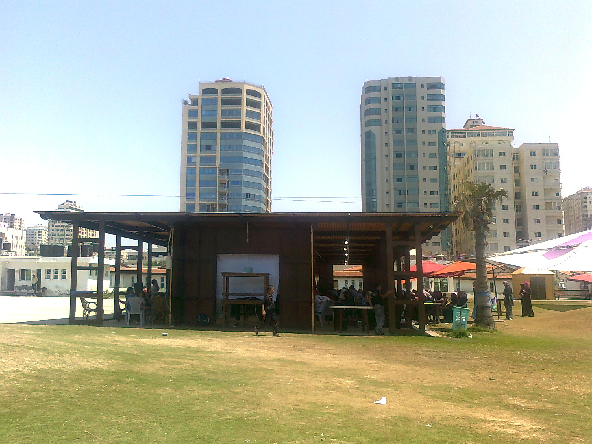 منتجع الشاليهات هو أحد منتجعات مدينة غزة